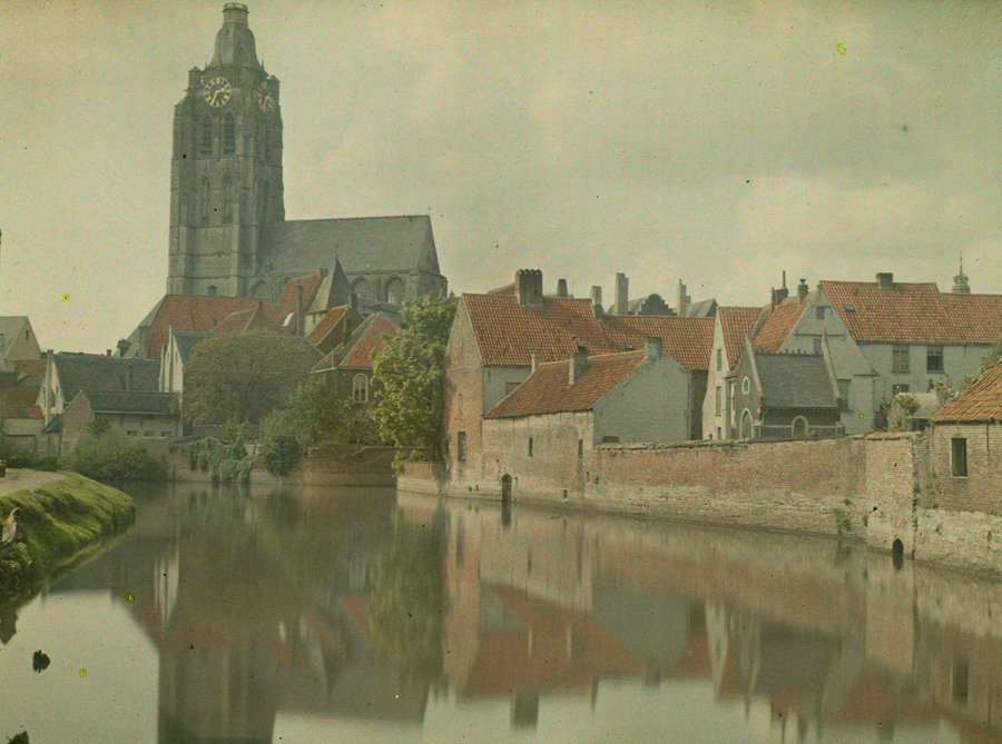 Autochrome by Georges Gilon of Saint-Walburgachurch, Oudenaarde, c. 1913